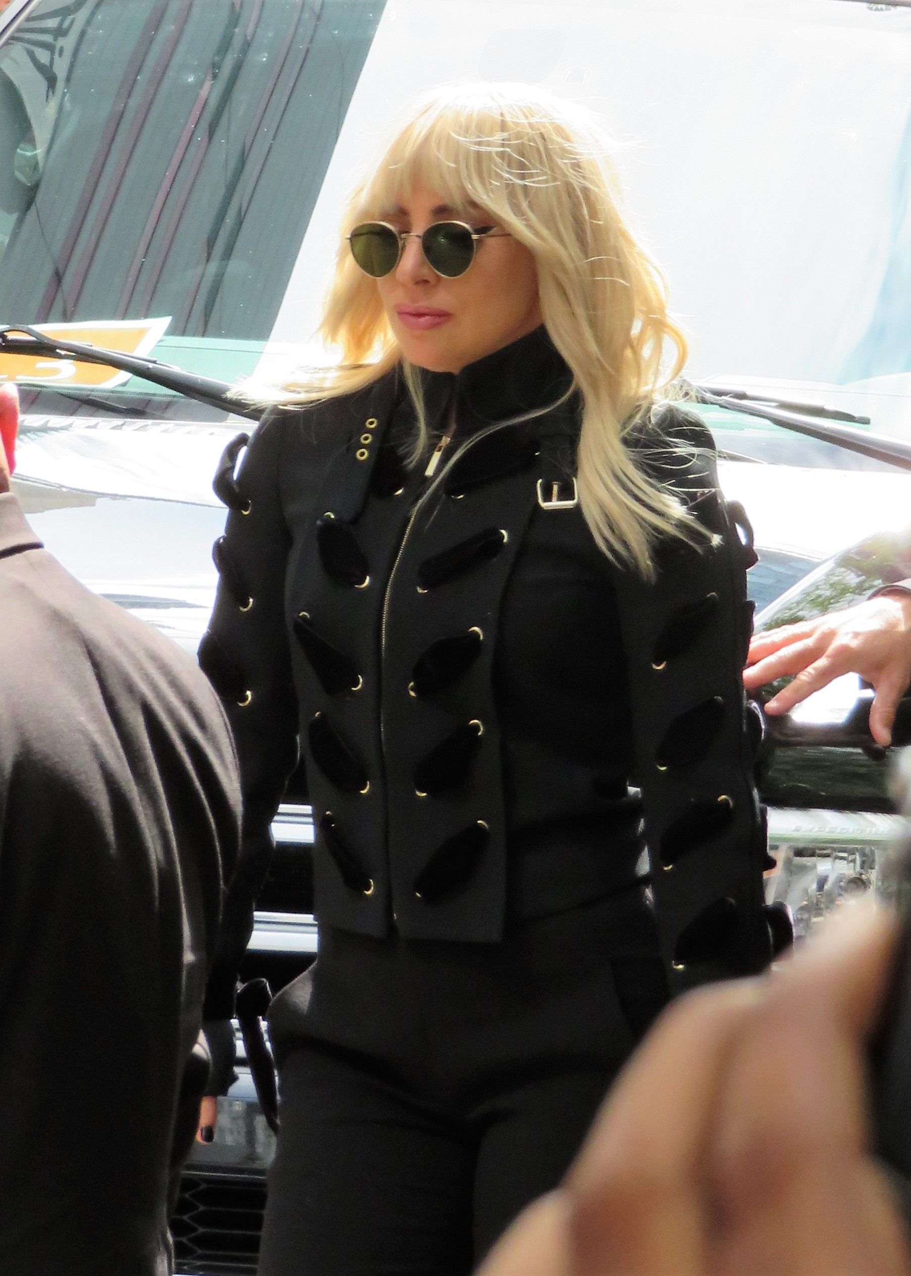 Lady Gaga at the press conference of her documentary Five Foot Two, 2017 Toronto Film Festival